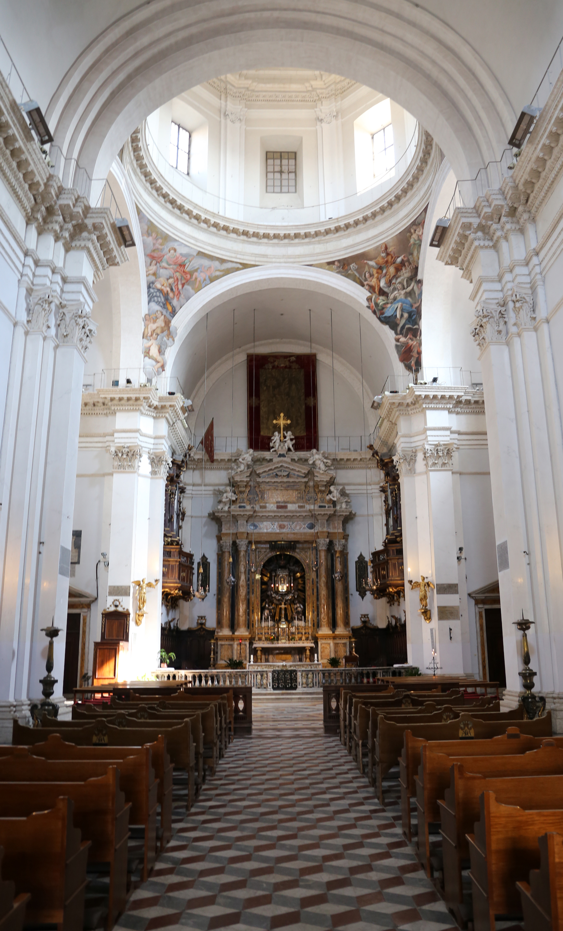 Santa Maria di Provenzano (Siena)